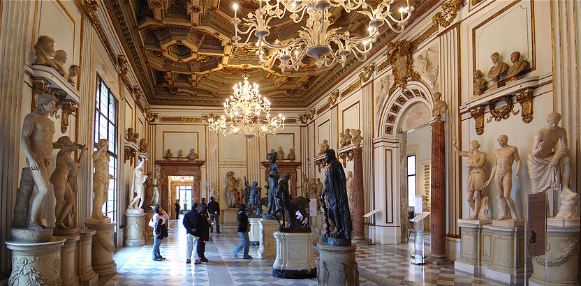 Salone of Palazzo Nuovo, Capitoline Museums, Rome